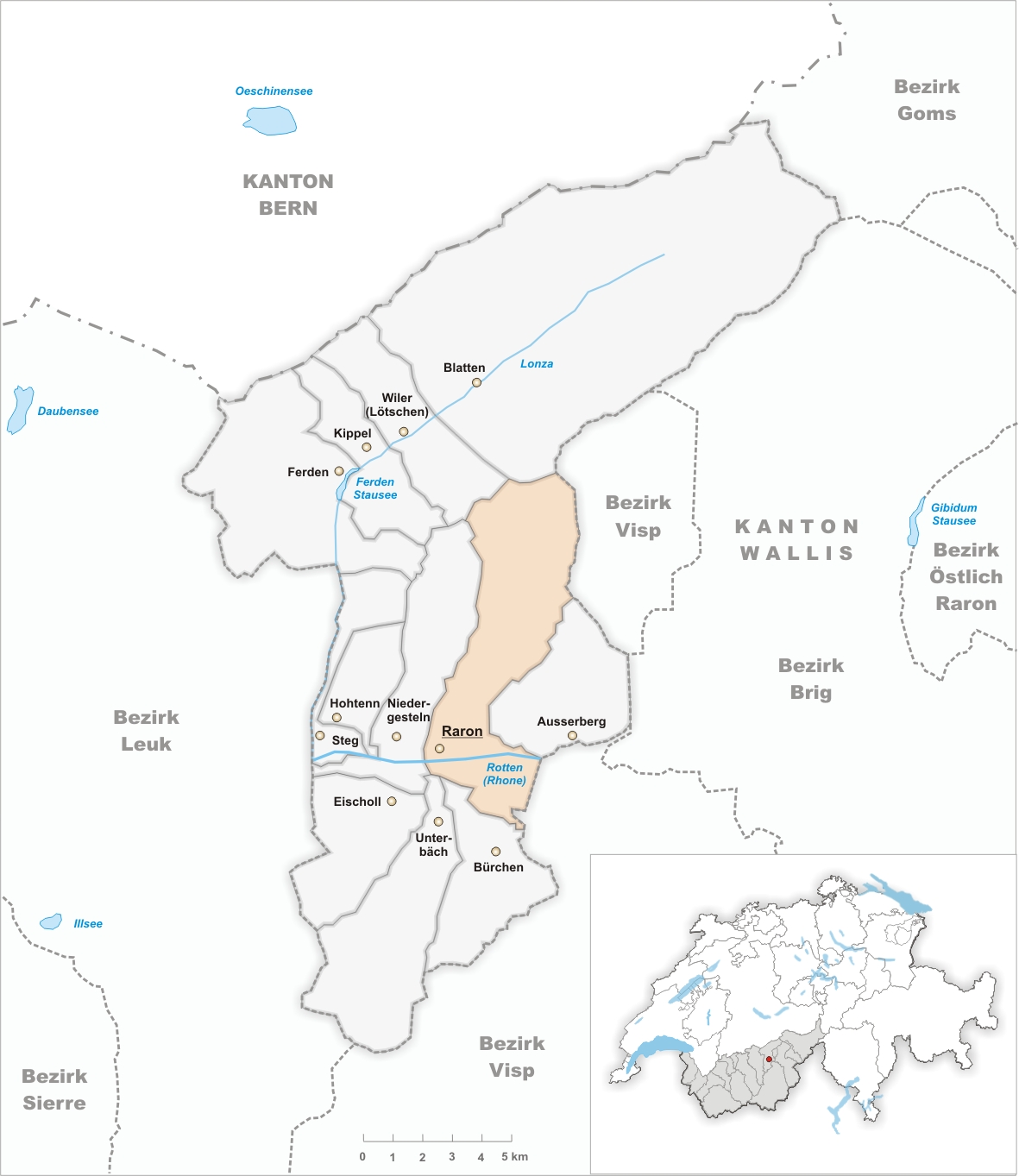 Municipality Raron